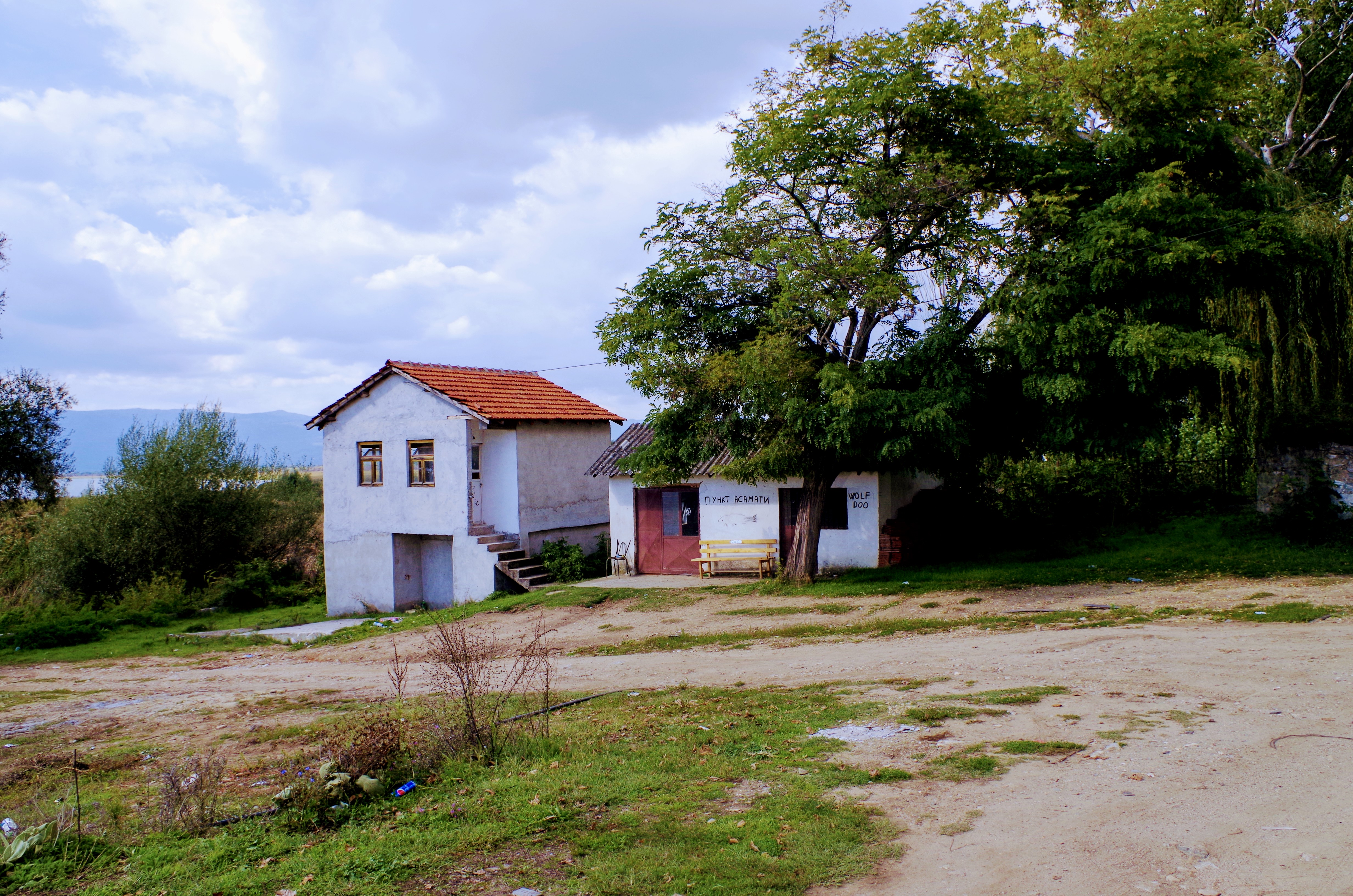 View of fishery point in the village Asamati